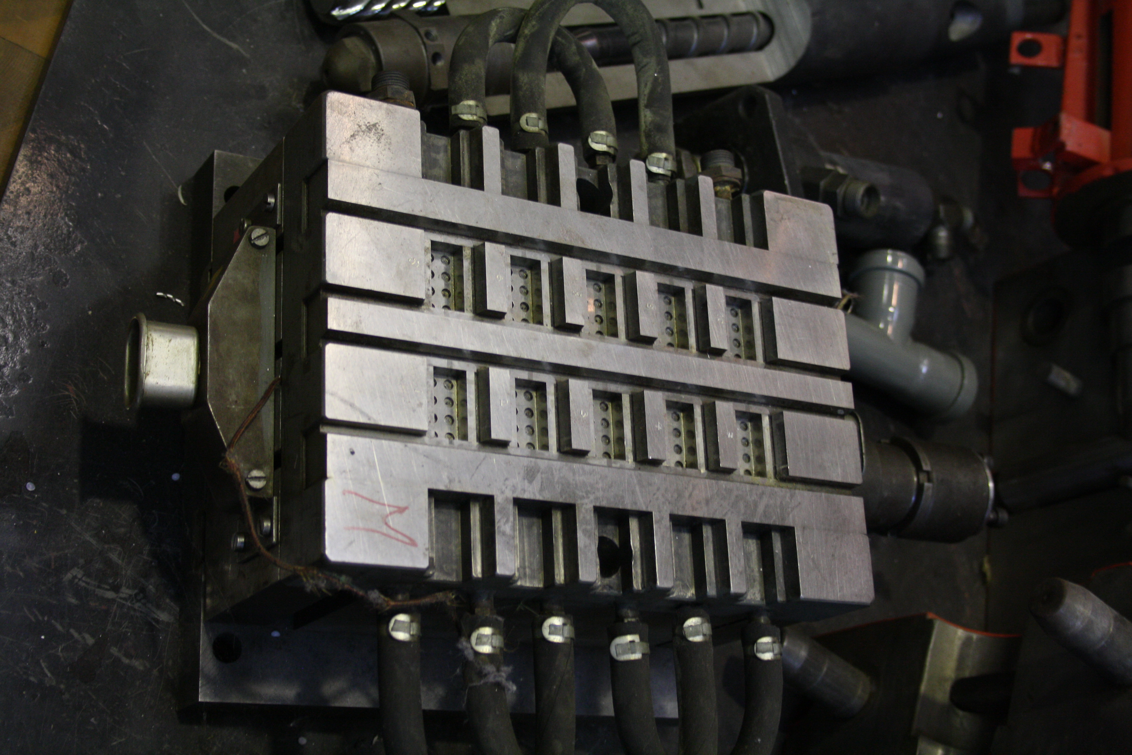 Lego injection molds. Photo taken at "Landesmuseum für Technik und Arbeit" at Mannheim, Germany (Mannheim State Museum for Engineering and Work)